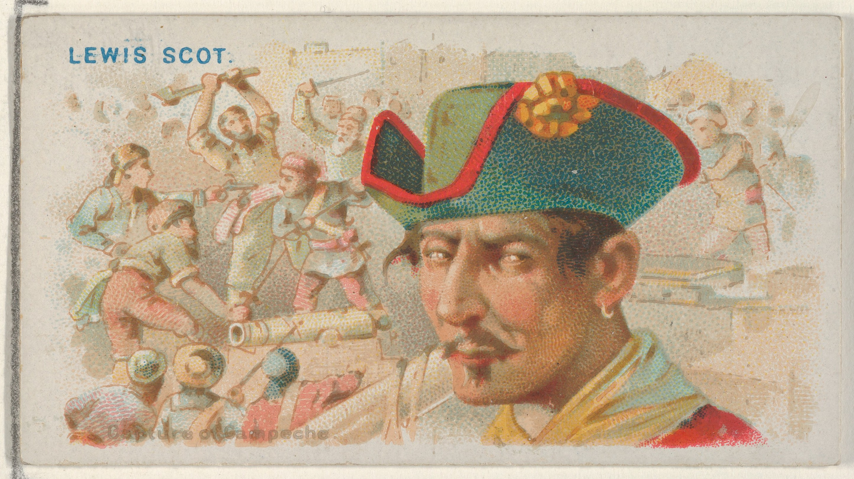 Print; Prints